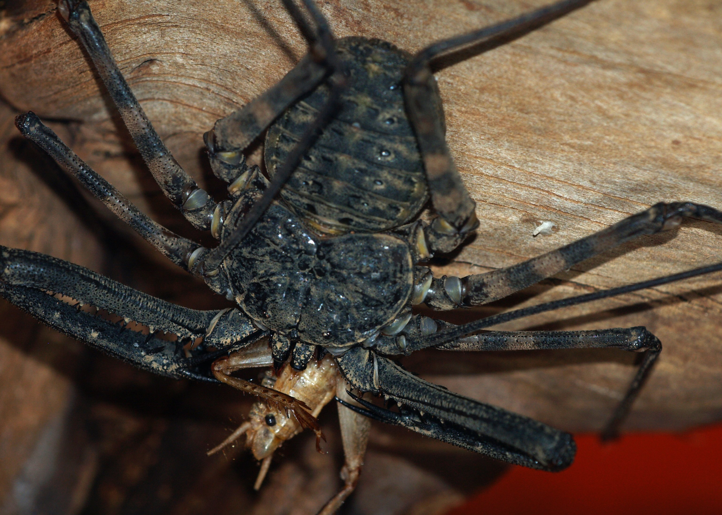 Admetus sp. (from Colombia) from Cologne Zoo, Germany.